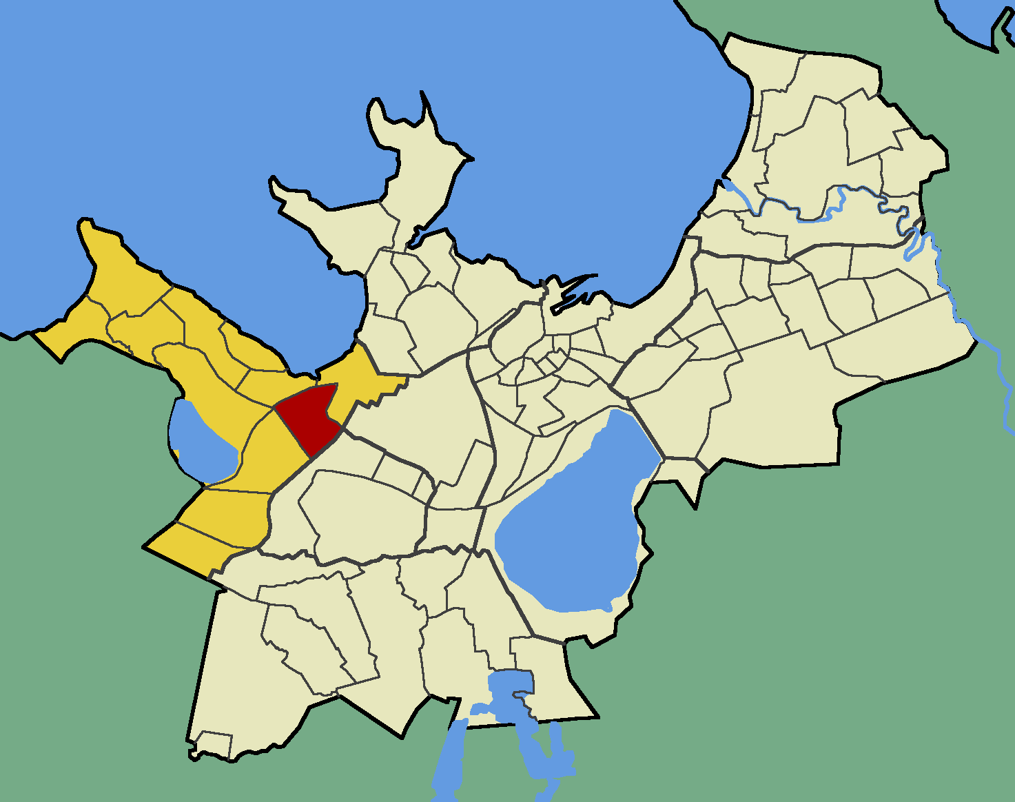 Map of Tallinn (Estonia) with borders of the quarters, Haabersti district and Veskimetsa quarter emphasised